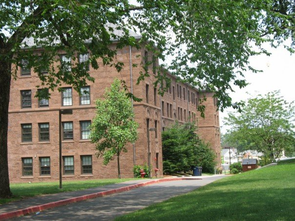 Clark Hall Wesleyan University, Middletown CT. Clark Hall, a freshman dormitory built in 1916 and recently renovated, houses 128 first-year students and is conveniently situated next to the main library and near the center of campus.